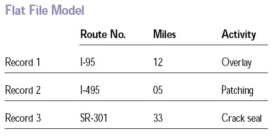 flat file model A file structure involving data records that have no structured interrelationship. A flat file takes up less computer space than a structured file but requires the database application to know how the data are organized within the file.